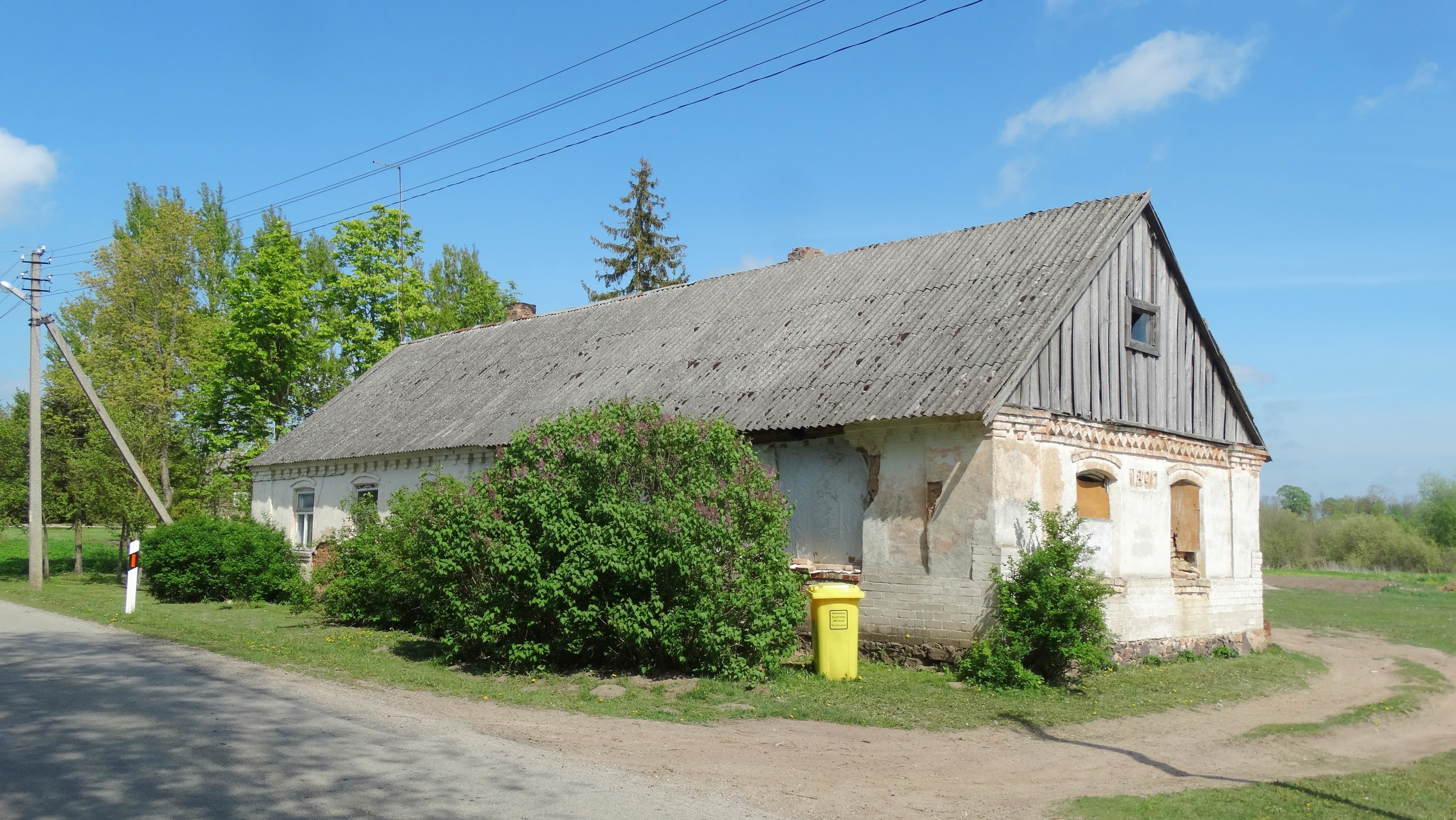 Diržiai, Pakruojis district, Lithuania